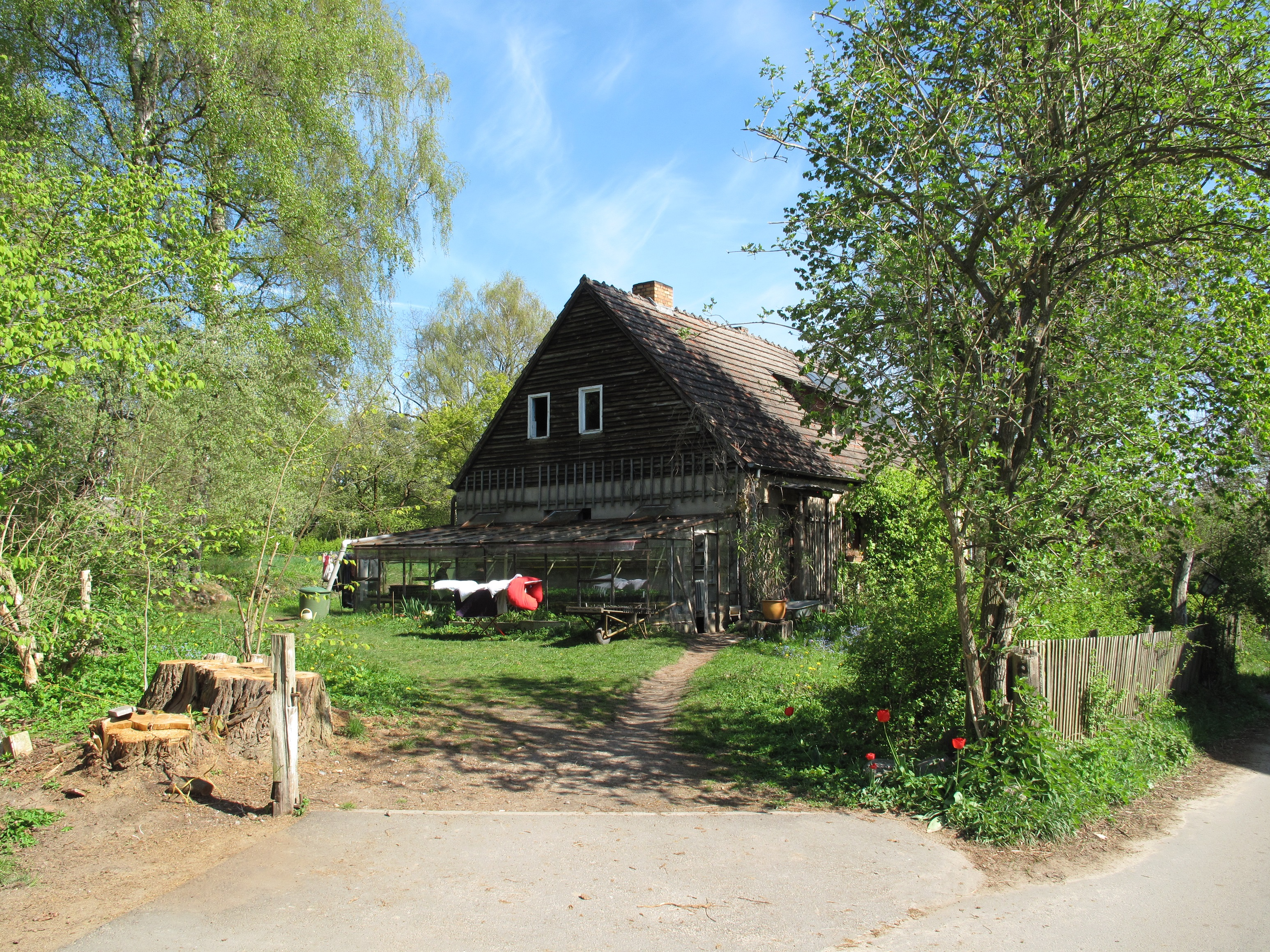 Residential building on the „Hof Marienhöhe“ in April 2014. Marienhöhe is a part (settlement, estate; german: Wohnplatz) and organic farm of Bad Saarow, District Oder-Spree, Brandenburg, Germany. The place was established in 1880 as folwark of the manor Saarow. Since 1928 the „Hof Marienhöhe“ works on the biodynamic agriculture-method (Demeter international) and is considered to be the oldest farm working with this method in Germany.